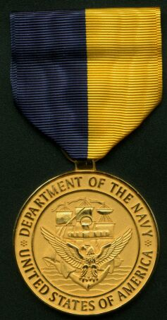 The Navy Distinguished Public Service Award is an award presented by the U.S. Secretary of the Navy to civilians for specific courageous or heroic acts or exceptionally outstanding service of substantial and long-term benefit to the Navy, Marine Corps, or Department of the Navy as a whole. It is the highest recognition that the Secretary of the Navy may pay to a civilian not employed by the Department of the Navy.